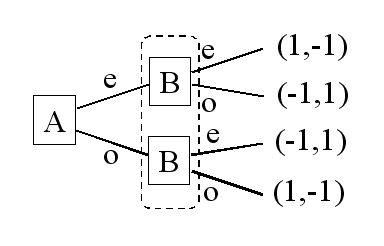 The extensive form of Odd_or_Even with imperfect information. The payoff of A and B are presented at the end of the trees as (A's,B's).